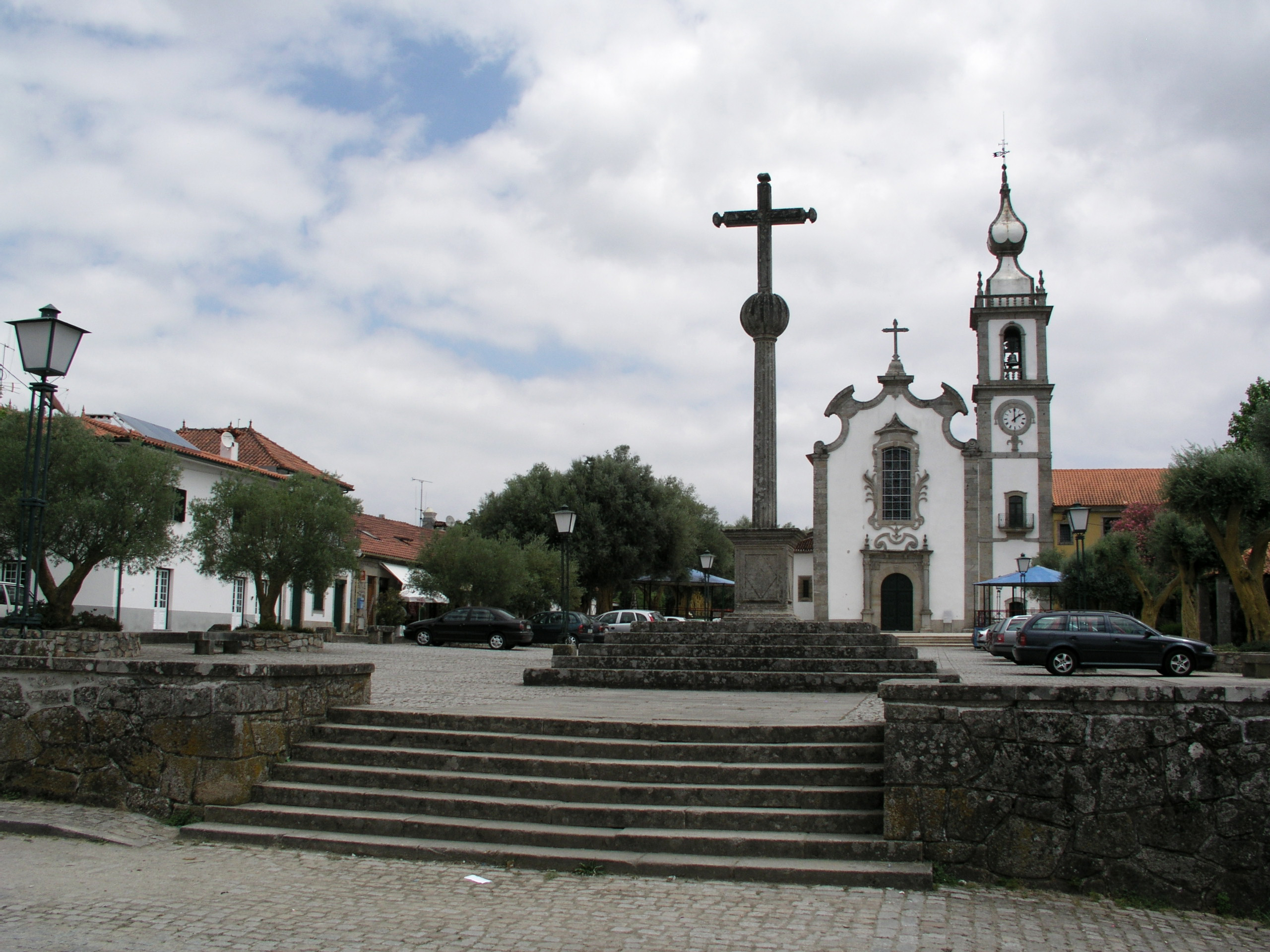 Refóios do Lima, Ponte de Lima, Portugal. Church.